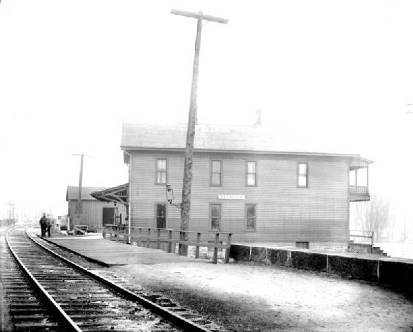 The Belmont Erie Railroad station on the main line in Belmont, New York.